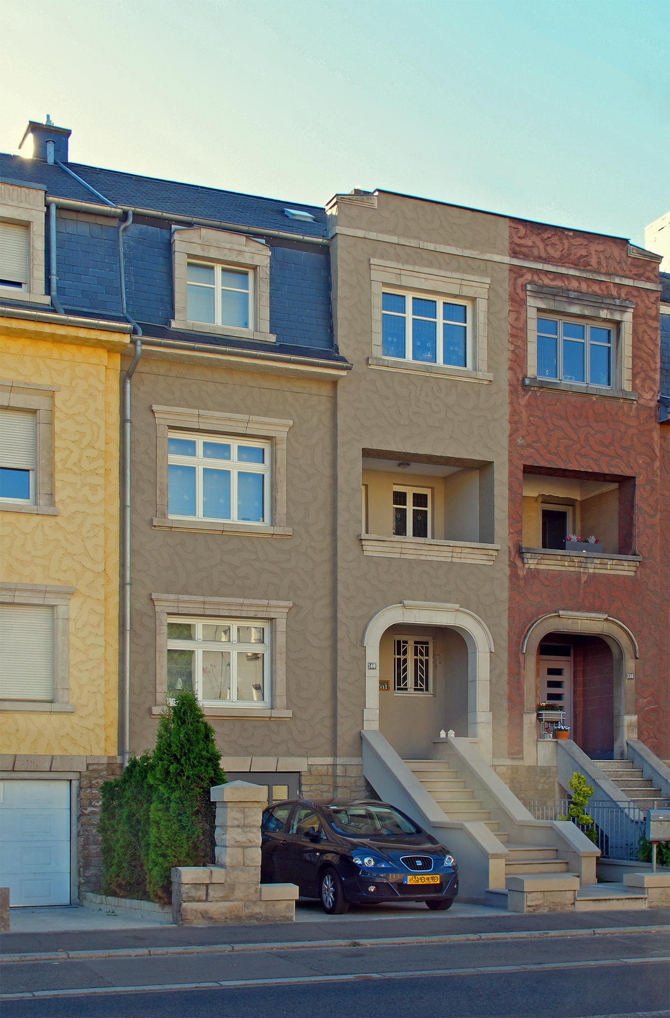 Building in Bereldange, 140 route de Luxembourg